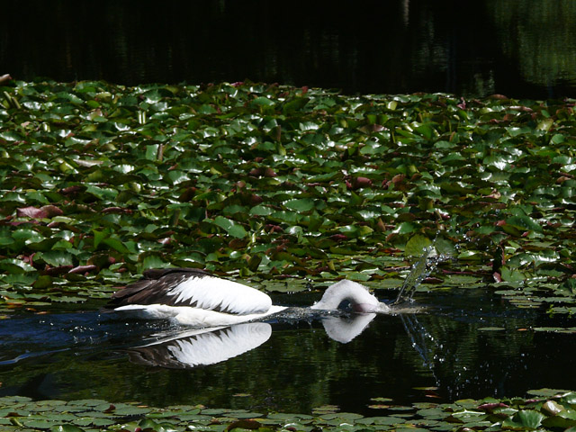 Pelecanus conspicillatus is seeking something to eat at UQ Lake in Brisbane